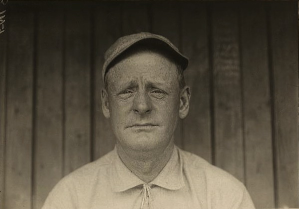 Photograph shows Fred (Frederick Lovett) Lake, utility player for the Boston Doves, head-and-shoulders portrait, facing front. Photo courtesy of Library of Congress.